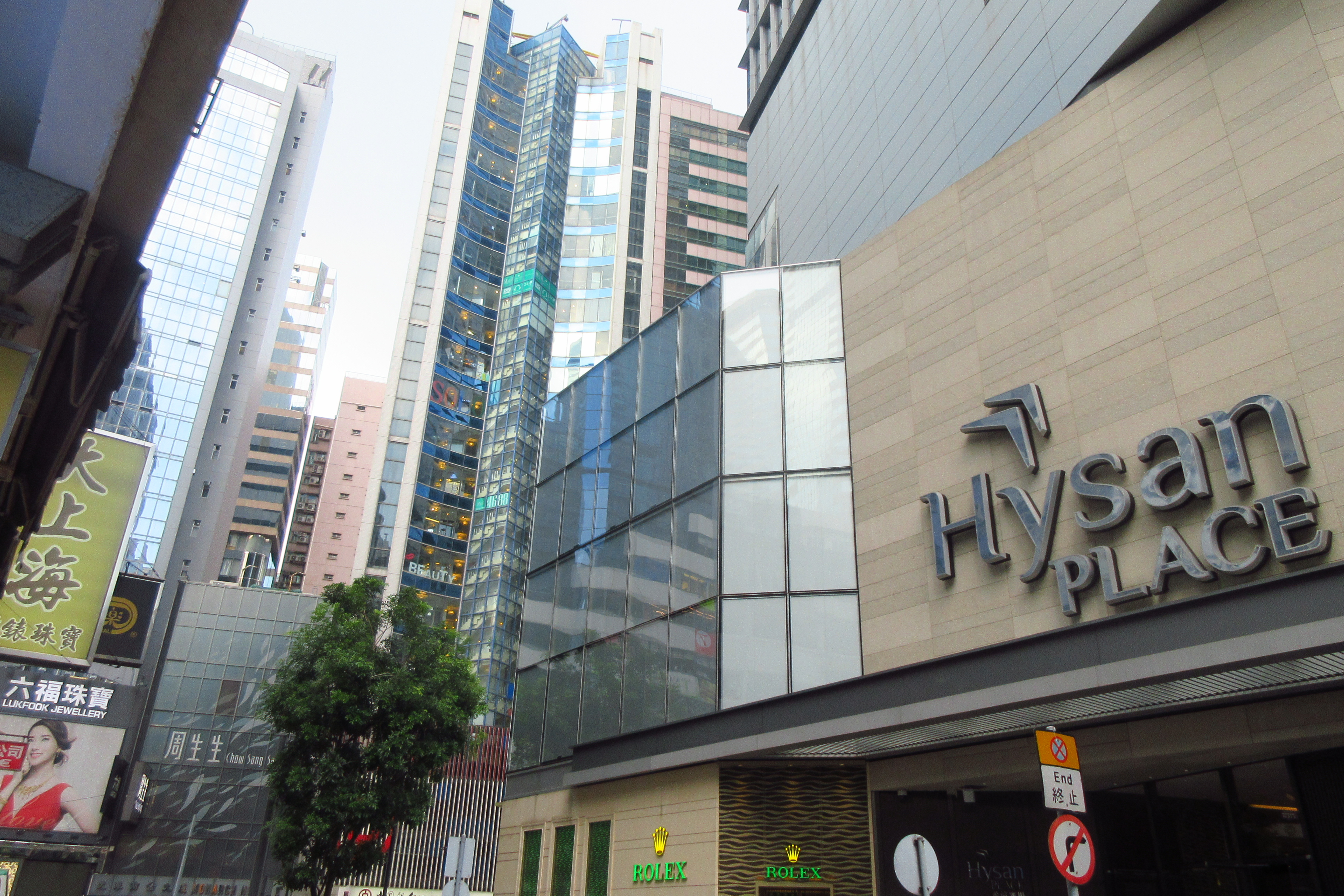 HK CWB 銅鑼灣 Causeway Bay 利園山道 Lee Garden Road Hysan Place in Sept 2018